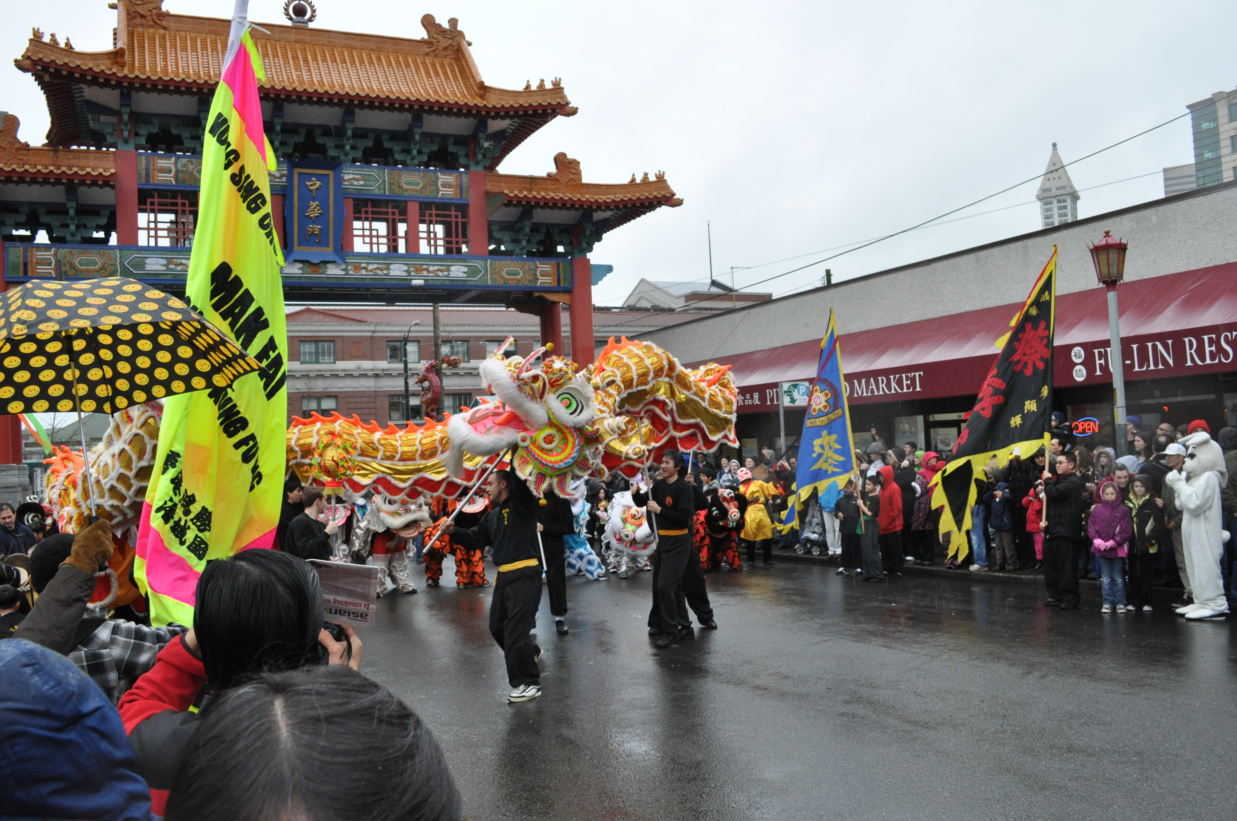 Lion dancers at Historic Chinatown Gate, Chinese New Year, Hing Hay Park, Seattle, Washington.